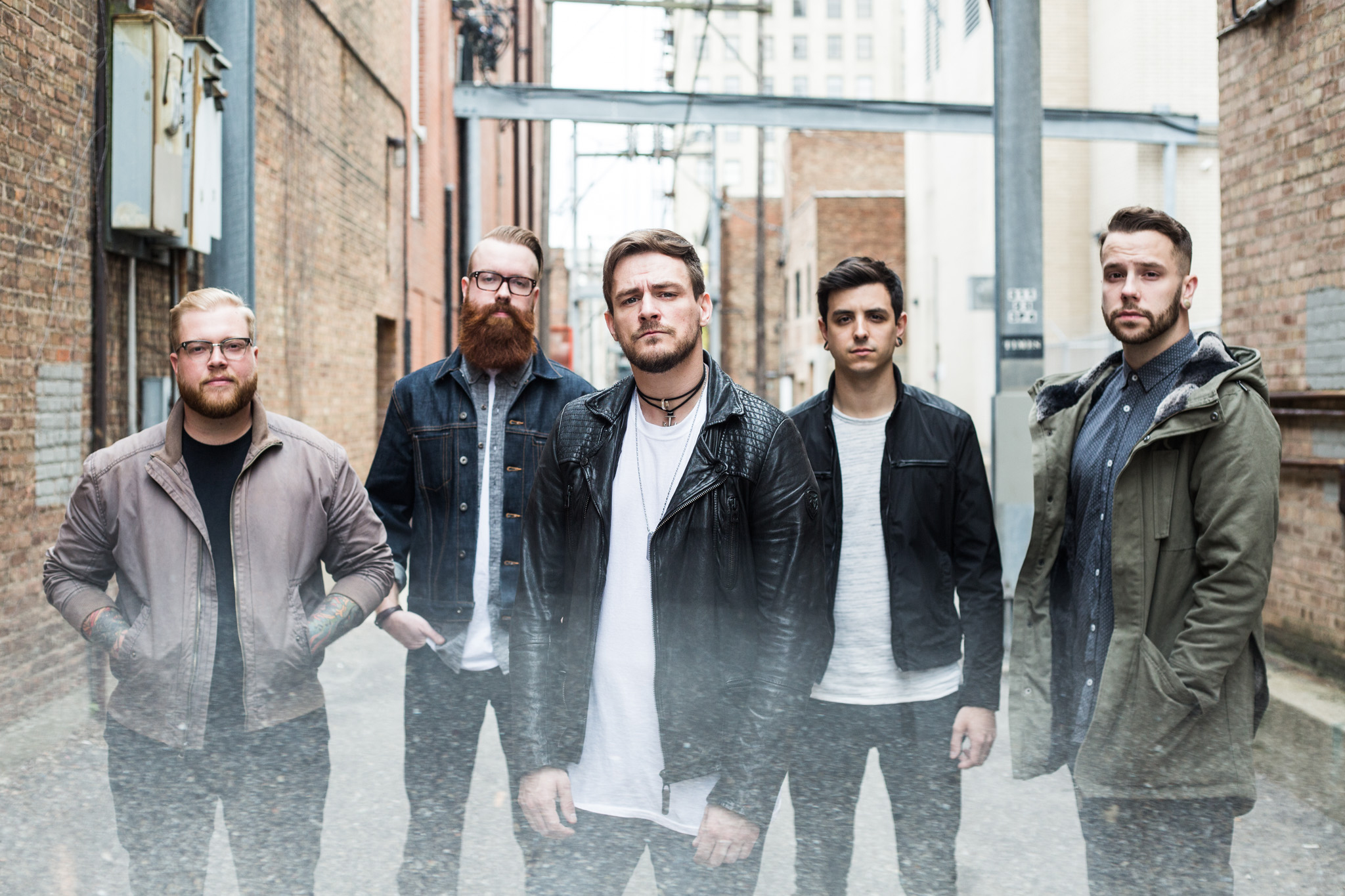 Photo of the band The Color Morale